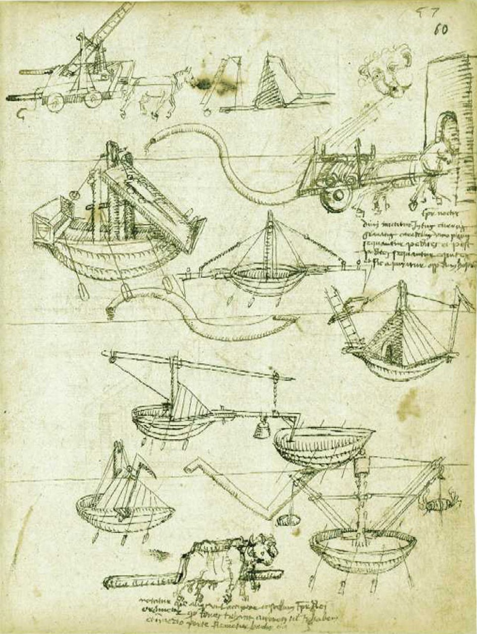 machines